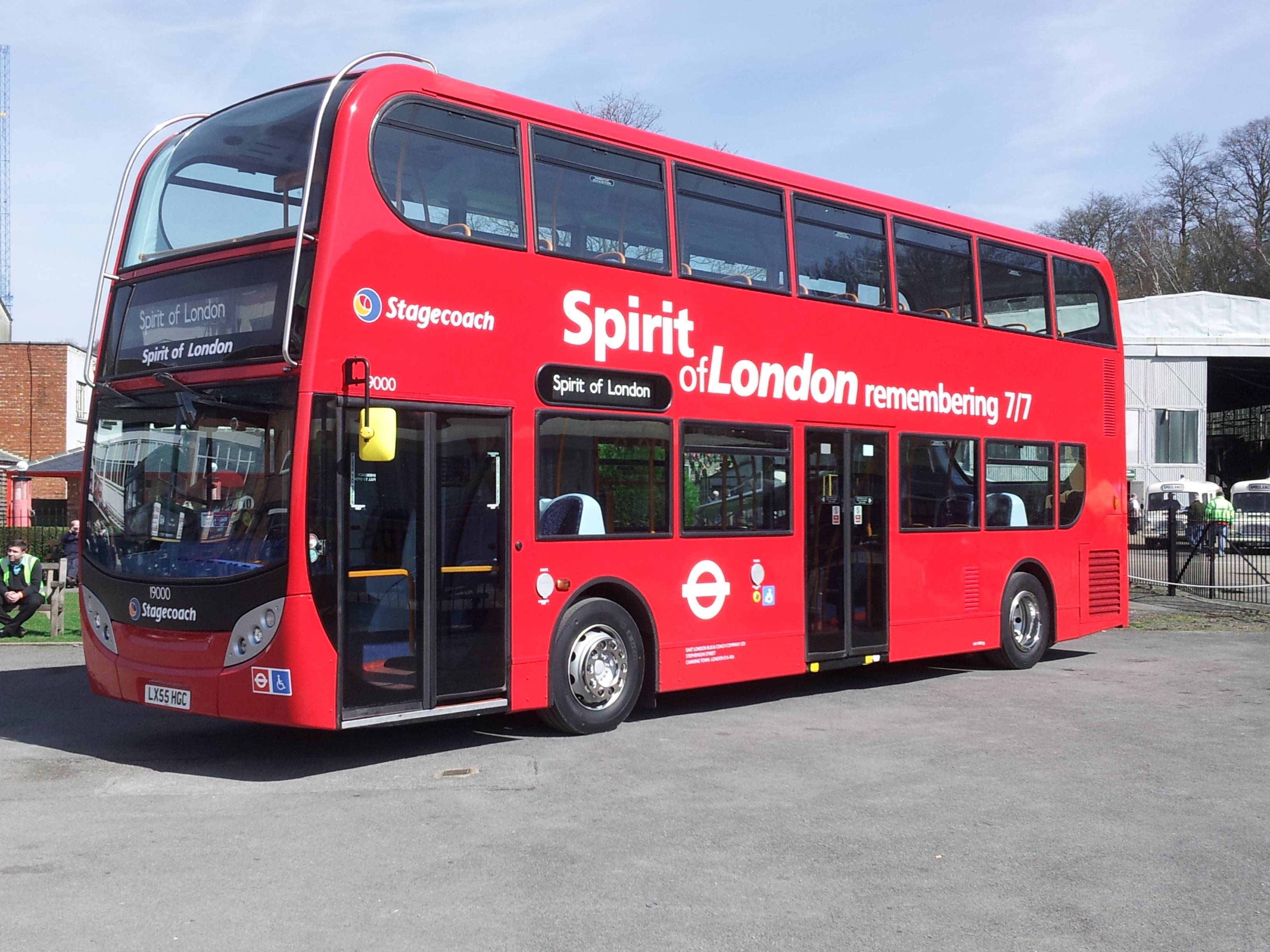 Stagecoach 19000, LX55HGC after rebuild following an arson - this, being the Enviro400 prototype is also the bus which replaced the one damaged in the 7/7 terrorist attacks in London.